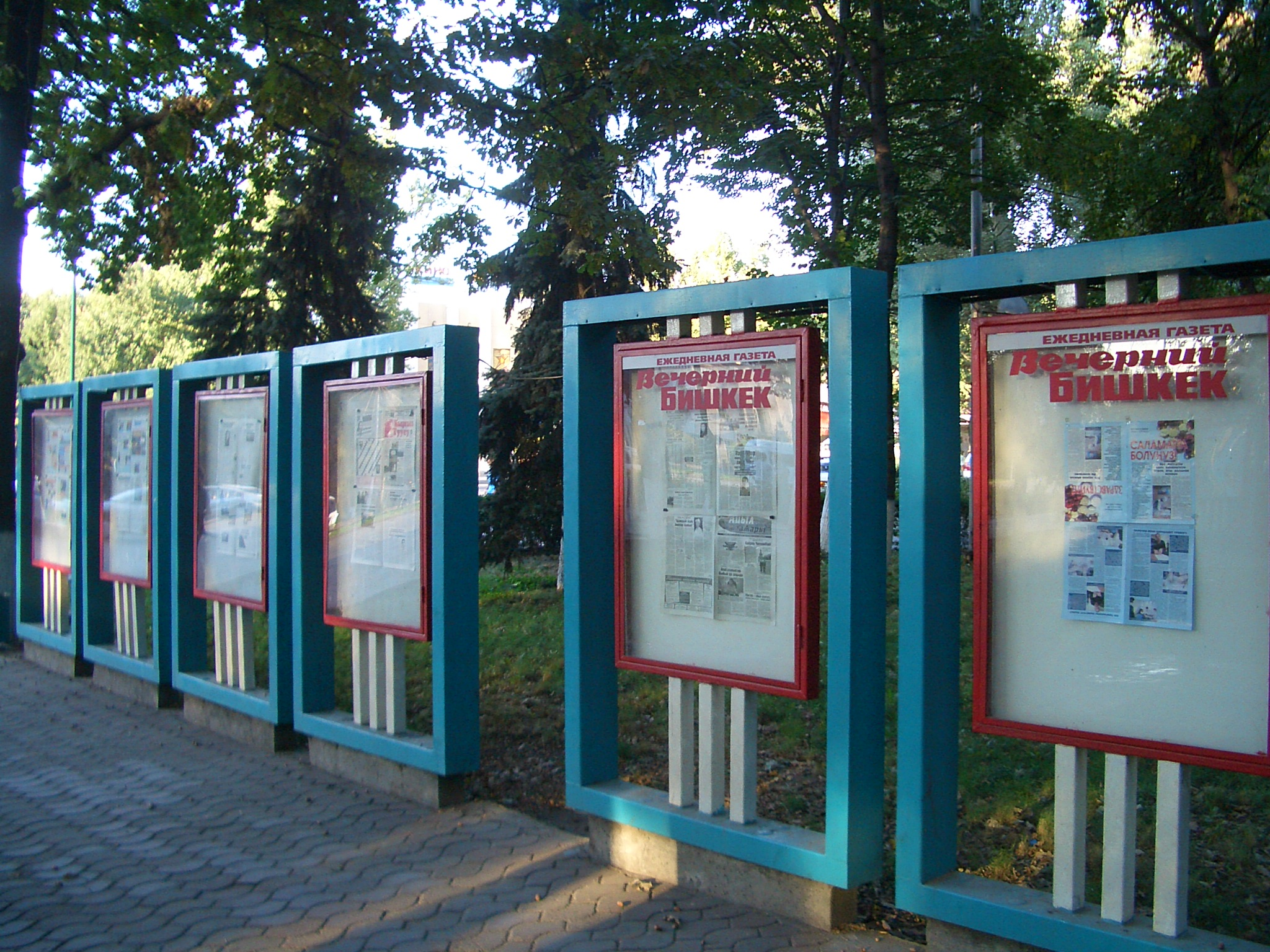 In accordance with an old tradition, Bishkek's main newspaper gets posted on special stands in Erkindik Blvd, for everyone to read for free.